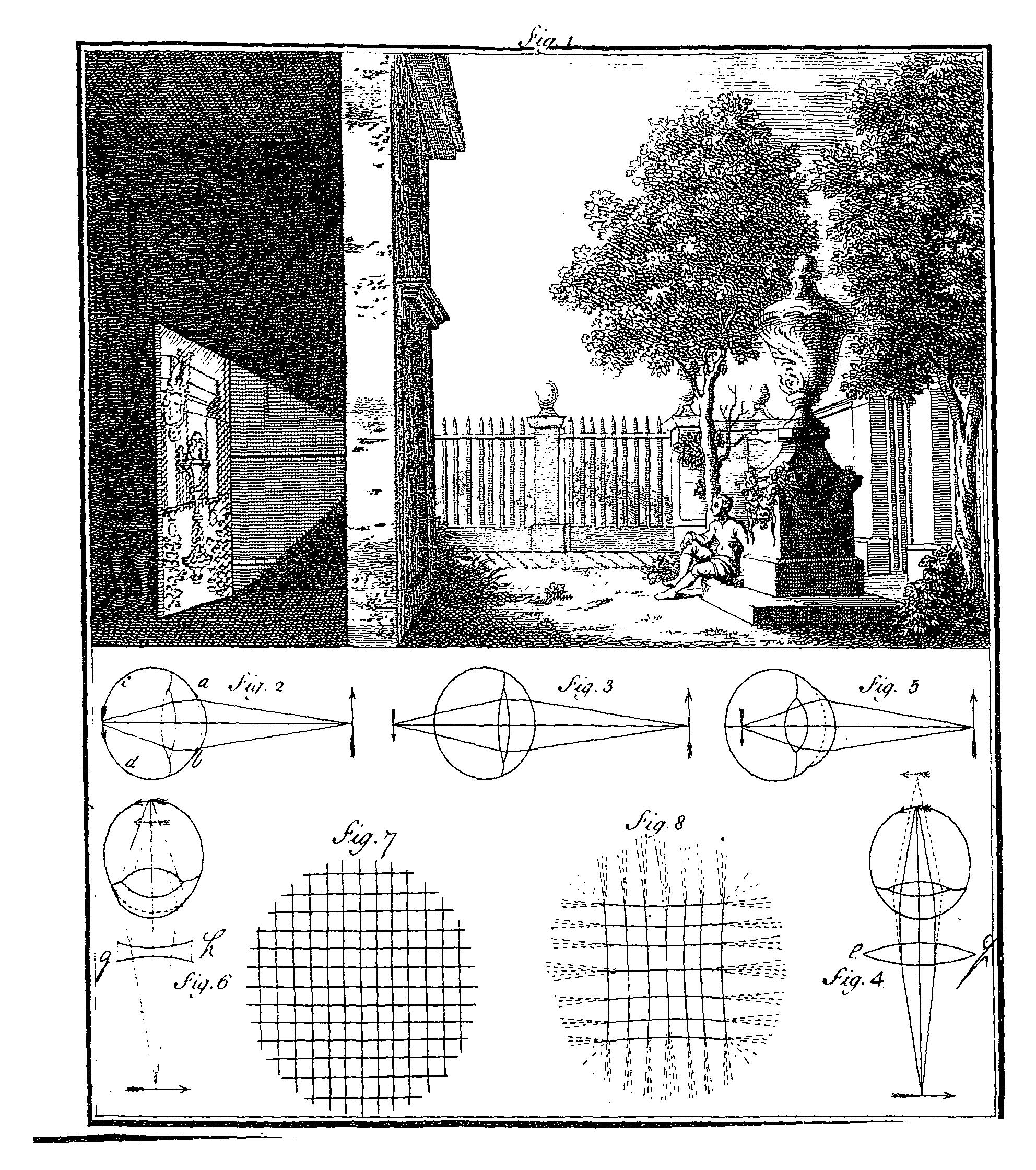 Process of vision as depicted in Ayscough, James, A short account of the eye, and nature of vision. Chiefly designed to illustrate the use and advantage of spectacles (London, 1752)